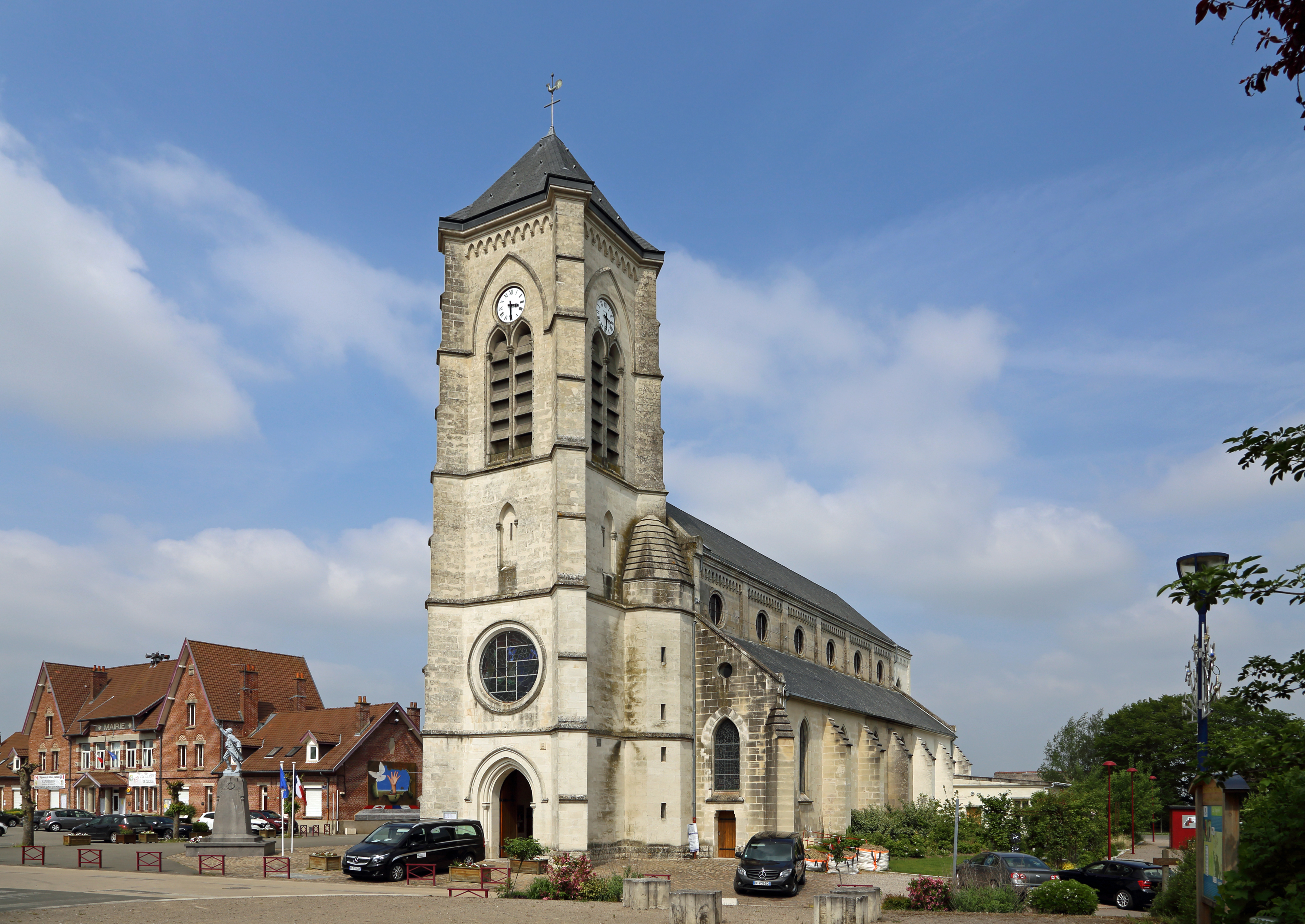 Givenchy-en-Gohelle (Pas-de-Calais department, France): Saint Martin church